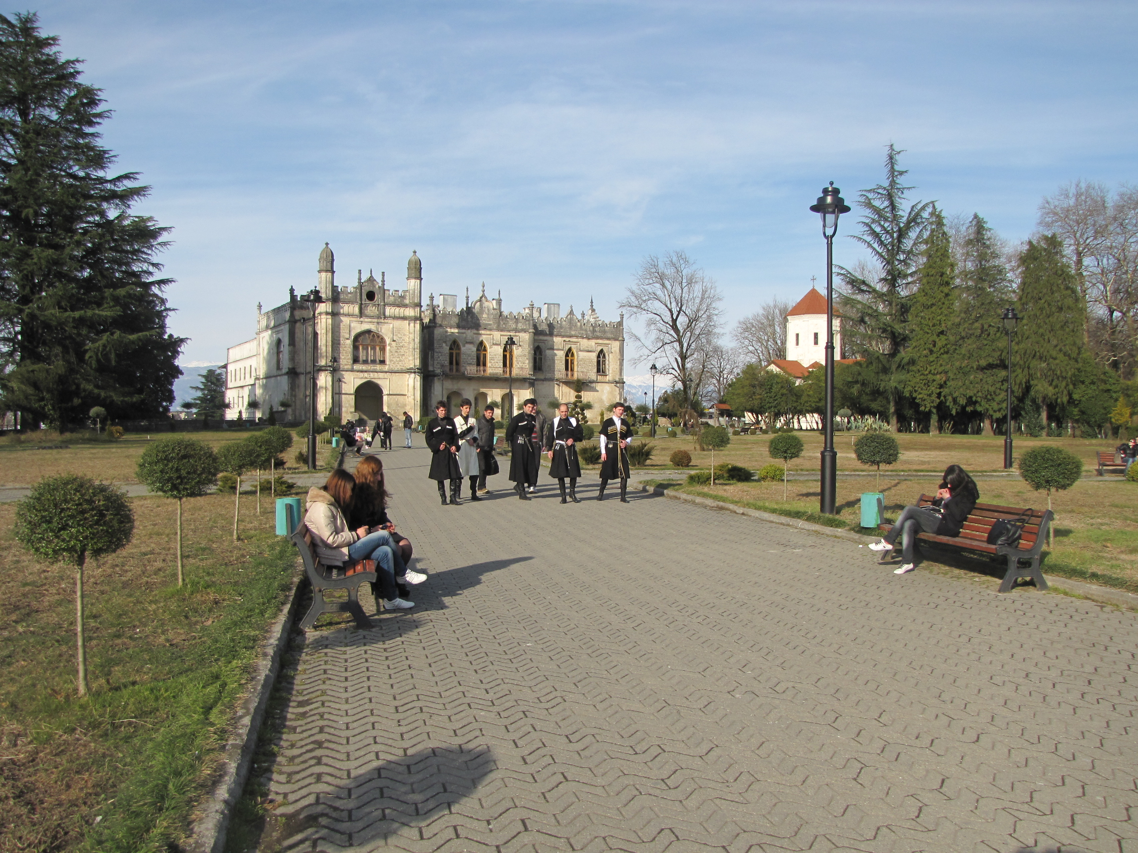 Dadiani Palace in Zugdidi, Georgia